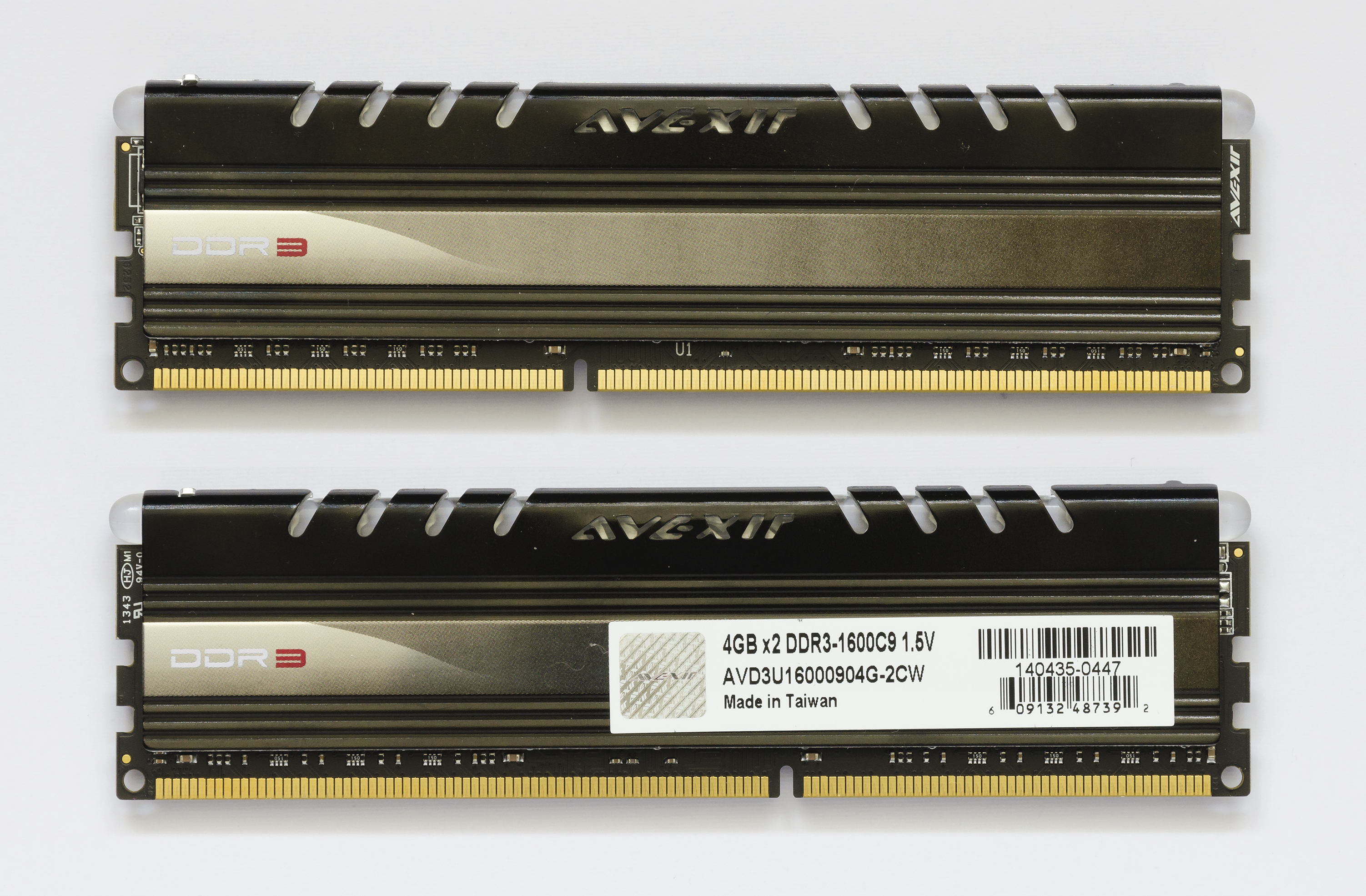 Avexir Core 2x4GB DDR3 RAM, 1600MHz